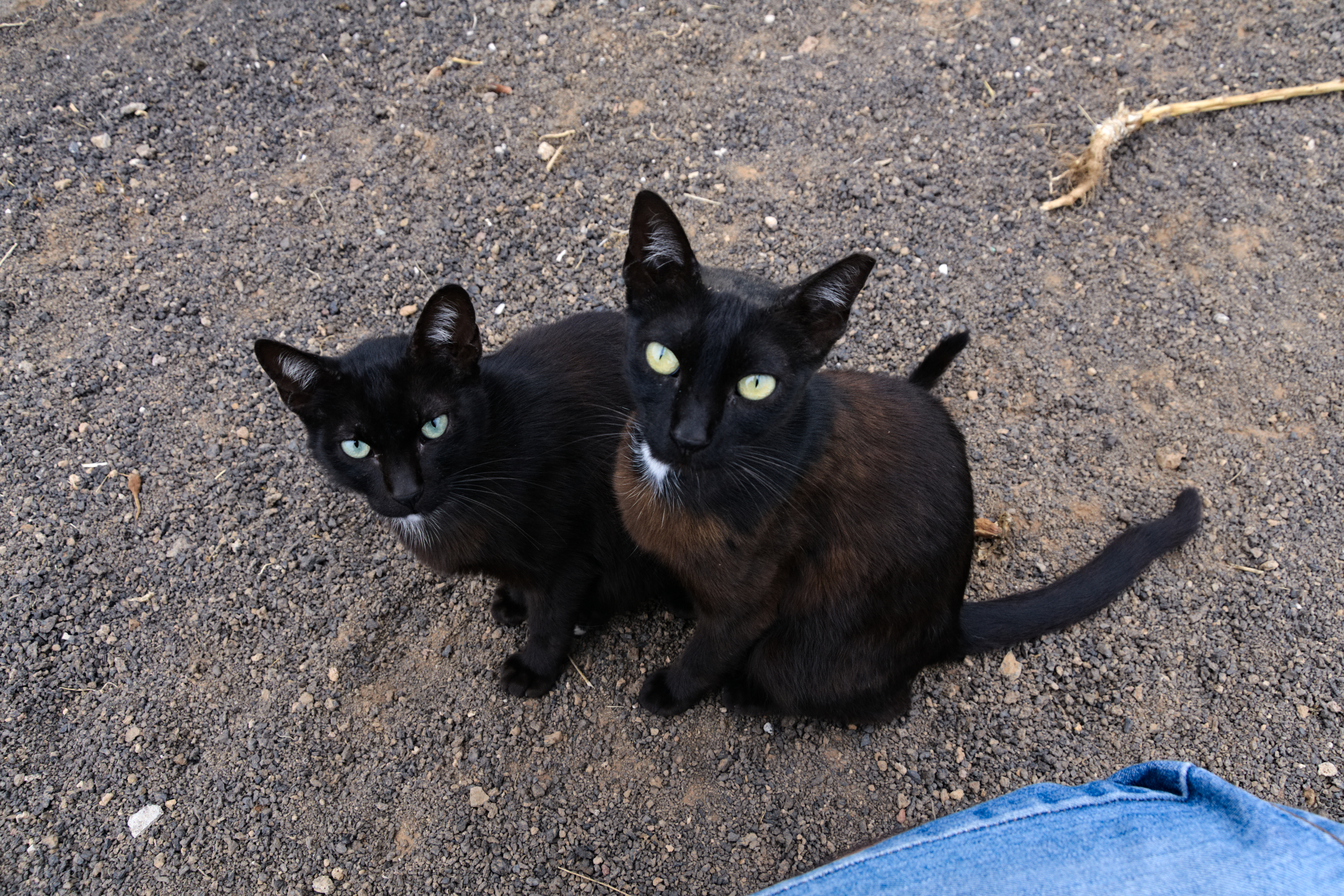 Black Cats in Mancha Blanca, Lanzarote.